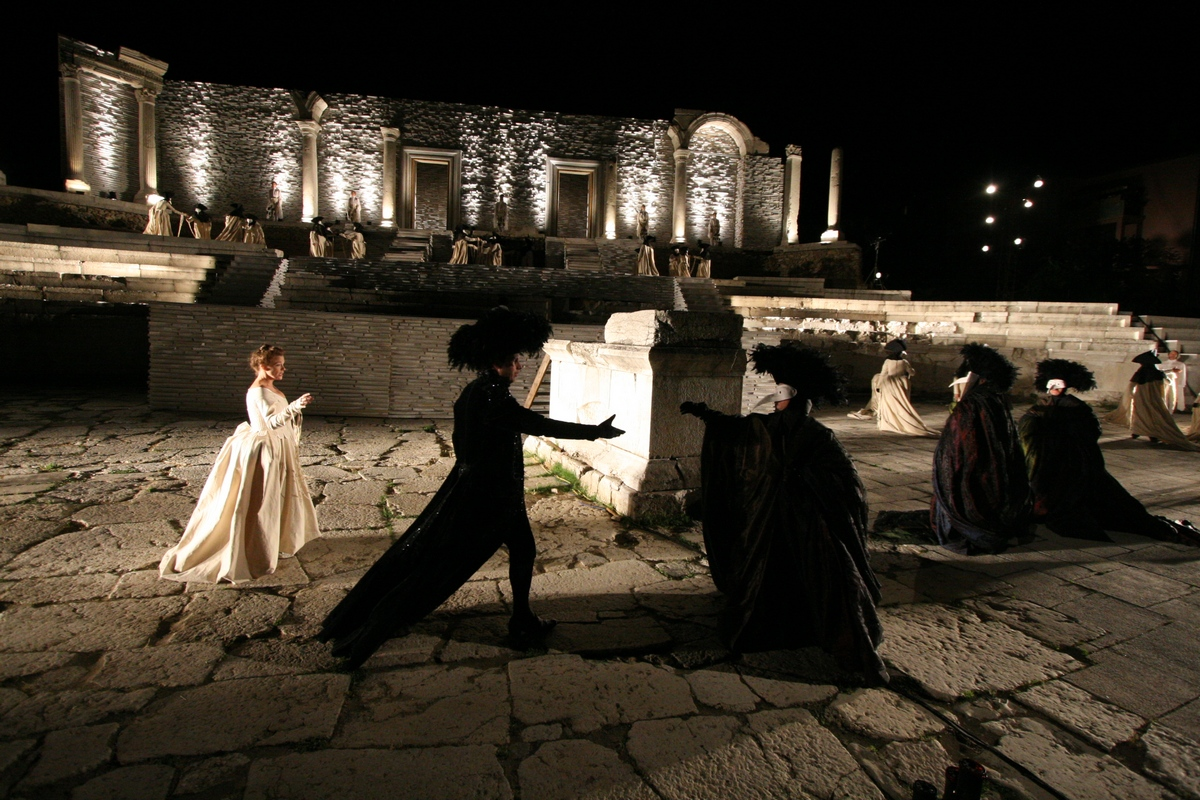 Opera Don Giovanni. State Opera Stara Zagora, Bulgaria. Dirigent Dian Tchobanov, Regisseur Stefano Poda, Don Giovanni Vesselin Stoykov